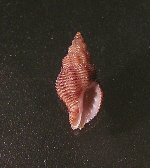 Orania walkeri (Sowerby, 1908), a murex snail from the family Muricidae; Philippines